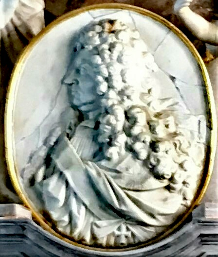 Portrait of Cai Lorenz Brockdorff from his mausoleum by Thomas Quellinus 1709